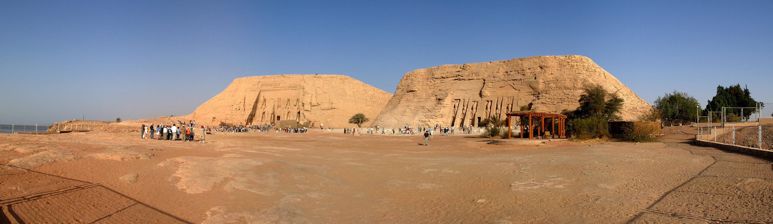 Abu Simbel—Great Temple of Ramesses II (left) and Small Temple of Nefertari (right)